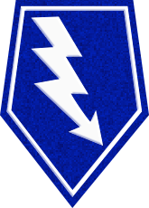 Counter-terrorist service